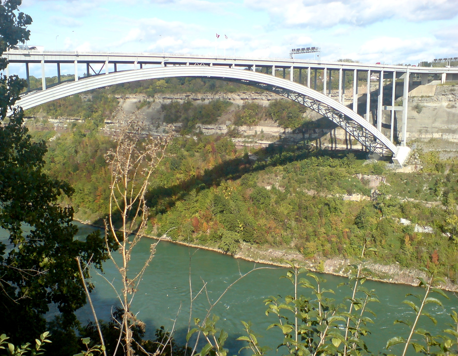 The Lewiston–Queenston Bridge is an arch bridge that crosses the Niagara River gorge just south of the Niagara Escarpment